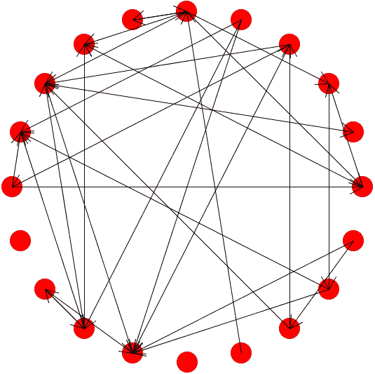 Directed Random graph, 20 nodes, probability p = 0.1, instance 2.